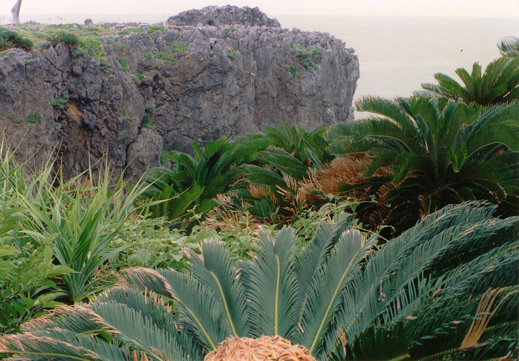 Cape Hedo, a cliff at northern tip of the island of Okinawa, Okinawa Prefecture, Japan. Believed to be kayauchi banta. I took this photo.